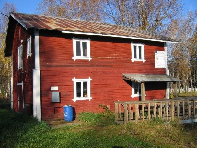 Grundfors kvarn i Djupsjöbacka